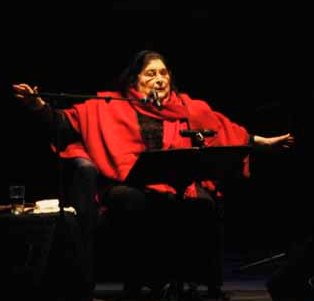 Mercedes Sosa in Heredia (Costa Rica). March 1st 2008.